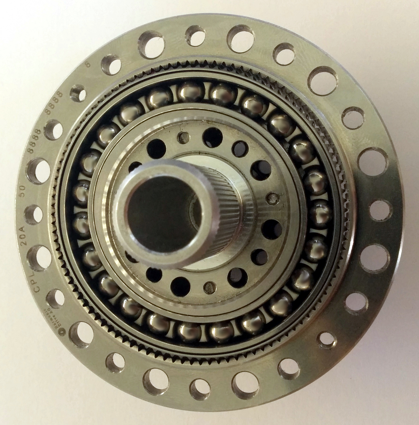 Closeup of an open strain wave gear (SWG) manufactured by Harmonic Drive AG